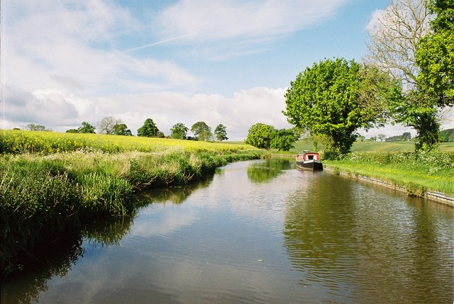 Llangollen Canal. Looking SE between Coachman's and Clay Pit bridges with rapeseed in bloom